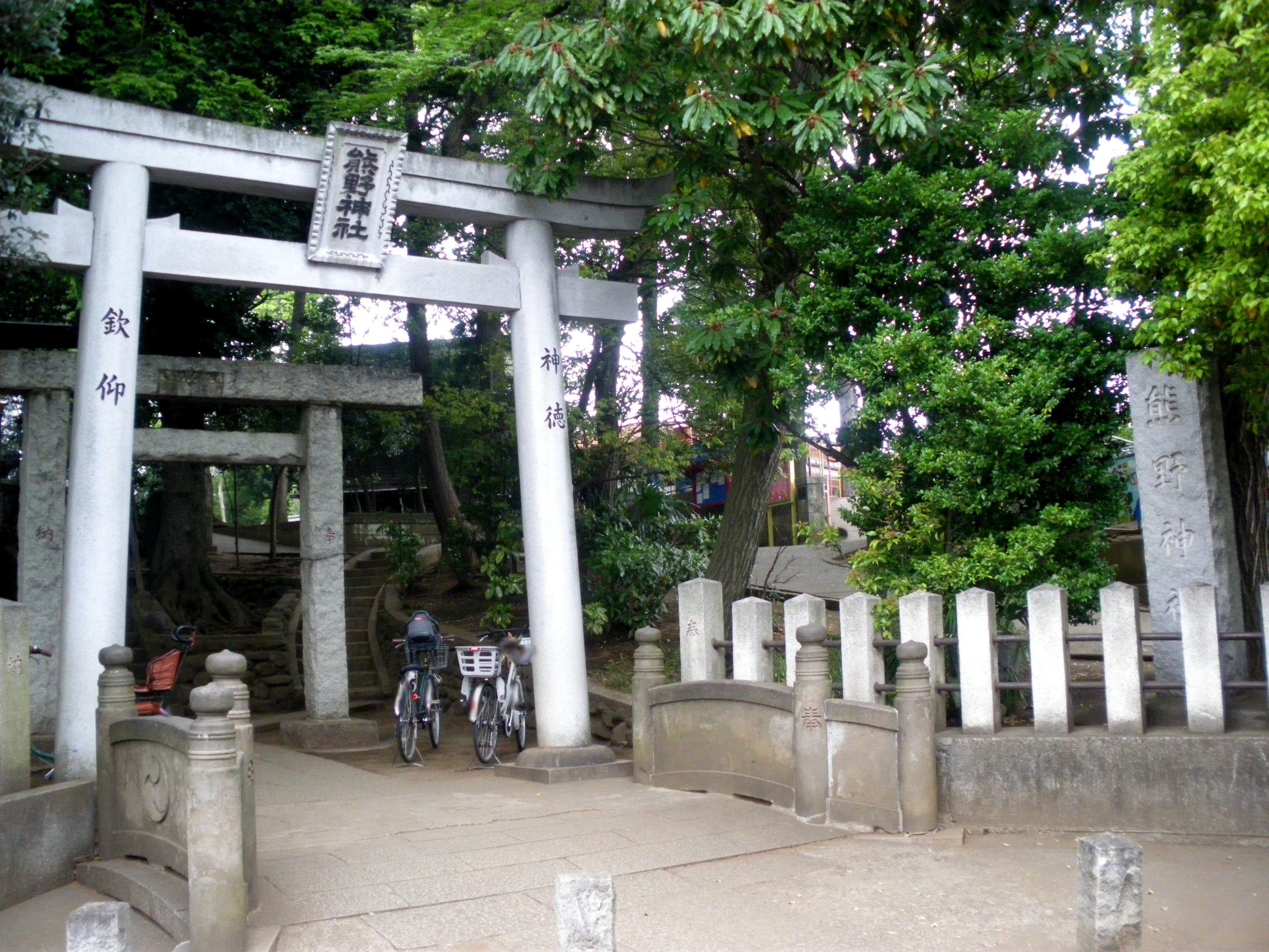 Izumi Kumano Jinja(Suginami,Tokyo)